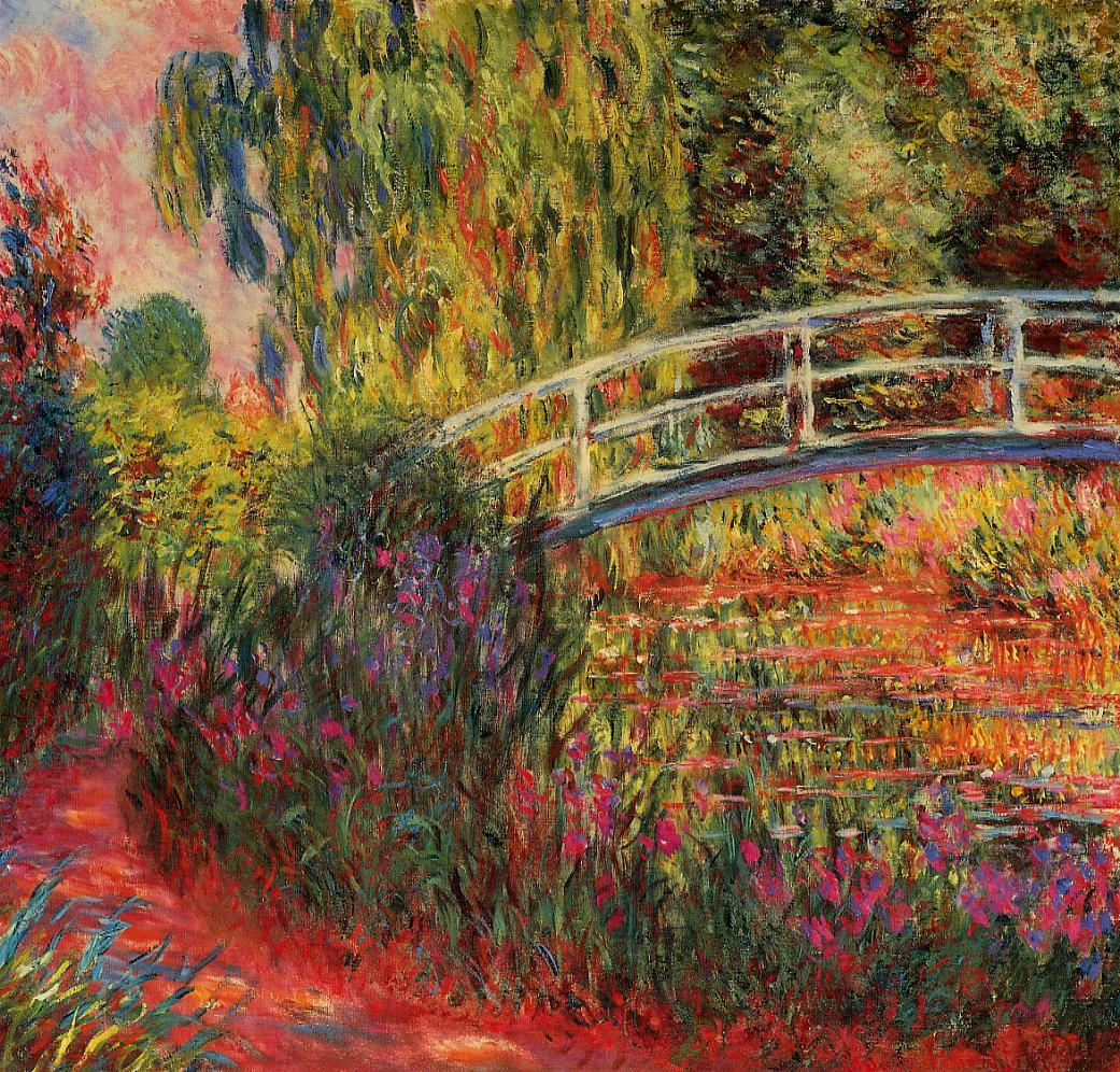 The Water-Lily Pond (also known as Japanese Bridge) (1900)